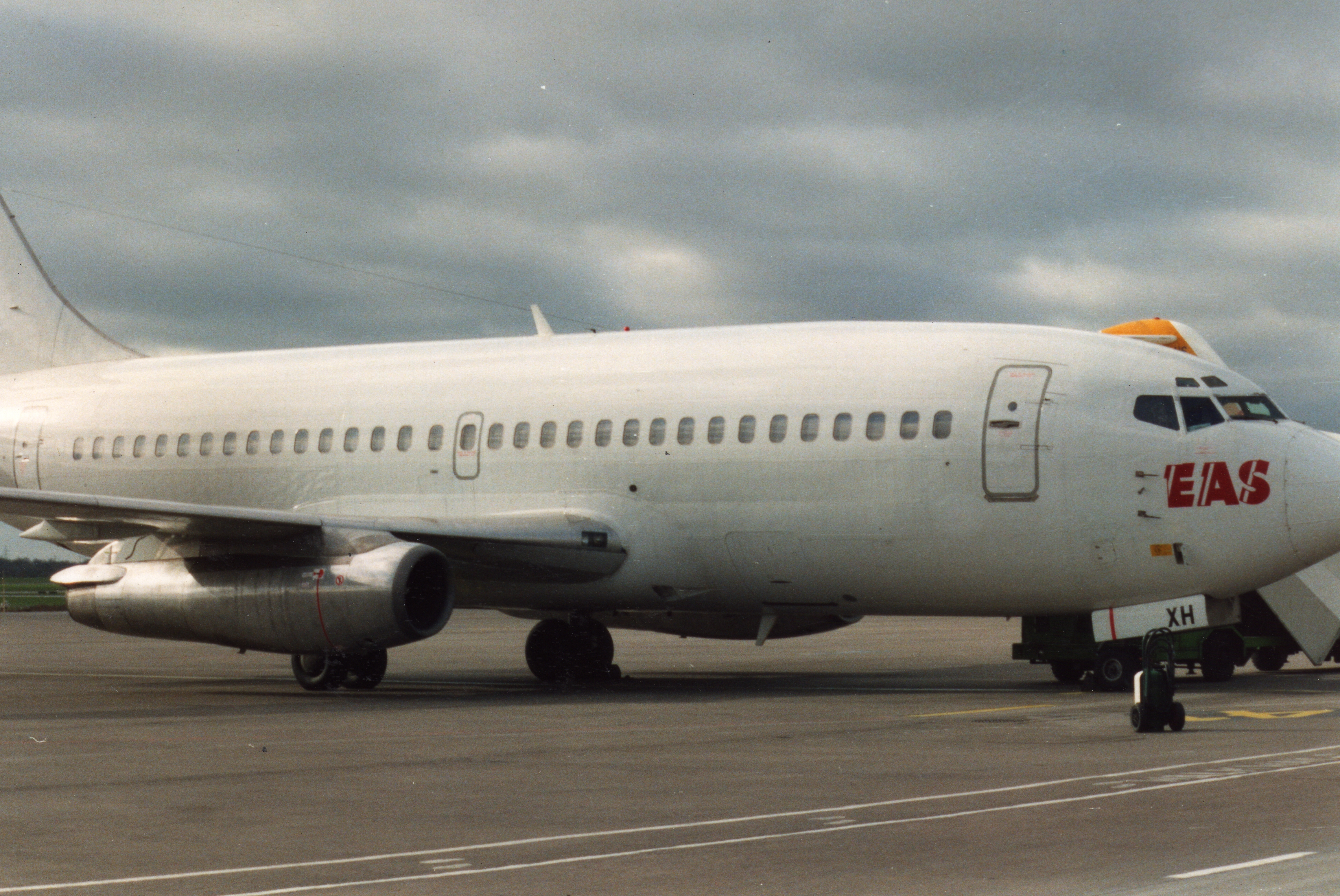 EAS Europe Airlines (F-GLXH) Boeing 737-200 aircraft, Dublin Airport, Dublin, Republic of Ireland, February 1993